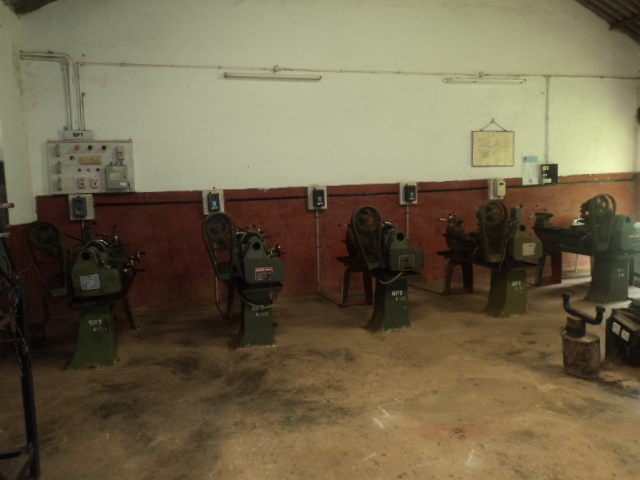 Inside view of machine shop